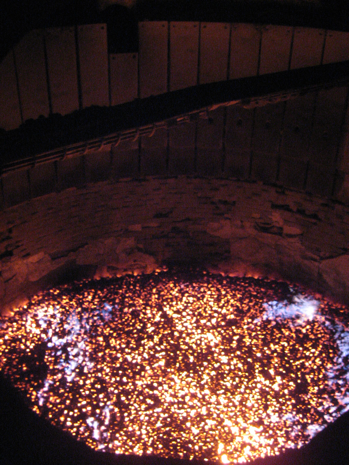 Dramatic picture of burning loads at the P6 blast furnace top, Hayange, France. The photo was taken by the manhole during a maintenance shutdown. For this event, the charge level is lowered a few meters and the top is opened to the atmosphere to allow auto-ignition of the carbon monoxide emanating from loads. We can see, from top to bottom: the crossing beams measuring temperature and gas composition, the throat armor made with vertical plates, the refractories (not cooled at this height) and the inflamed loads. The homogenous distribution of the flames is characteristic of a non-central-coke work.